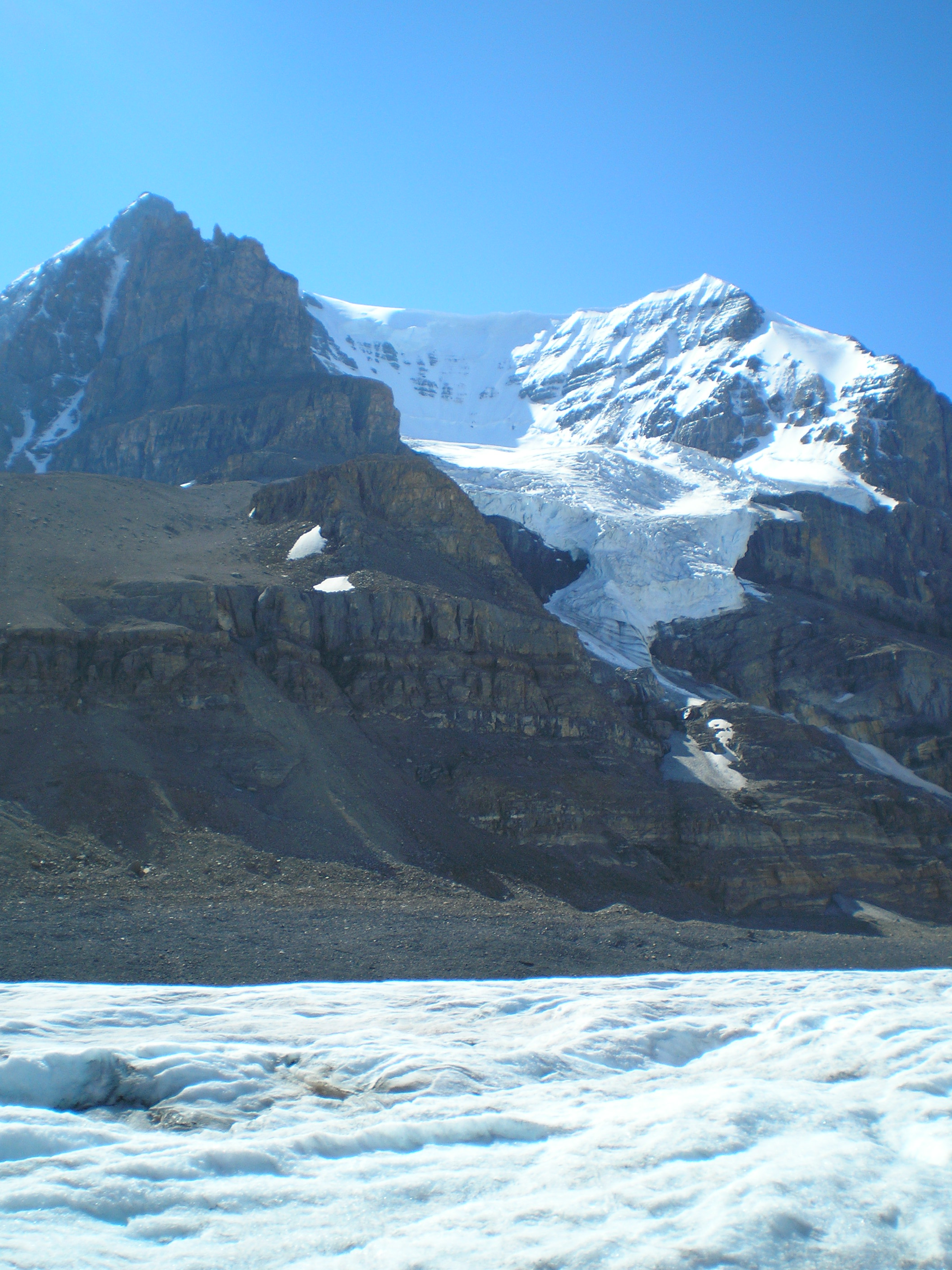 Mount Andromeda and Athabasca Glacier, Alberta, Canada.